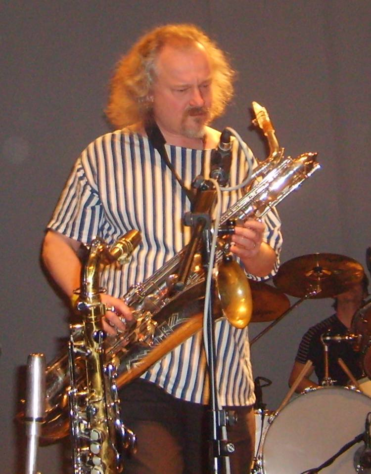 Saxophonist Vitek Malinovsky